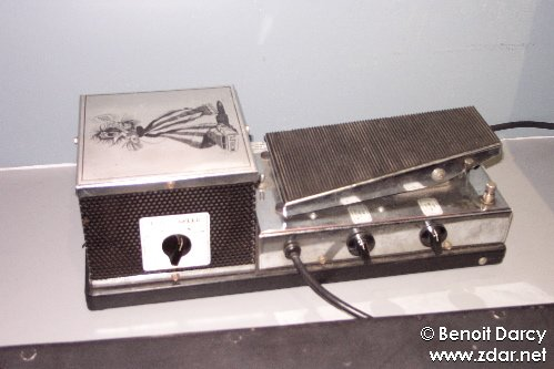 Photo of the exhibition Pink Floyd Interstellar at the Cité de la Musique (Porte de la Villette, Paris). Read the story (in french) at .